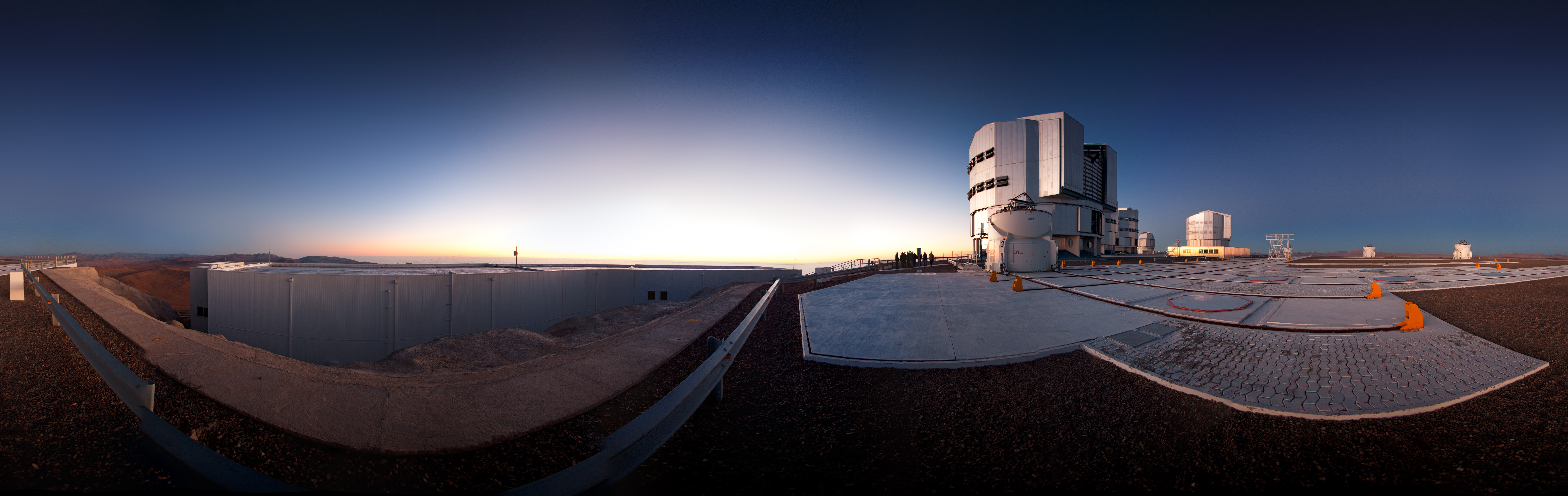 As the Sun sets in the north-western sky above the Chilean Atacama Desert, astronomical work is about to begin. This is home to ESO’s Very Large Telescope, one of the most powerful astronomical devices ever constructed. It is located atop Cerro Paranal, a 2600-metre high mountain some 120 kilometres south of the city of Antofagasta. This unusual 360-degree panoramic projection reveals the observing site from a fresh perspective. In the centre of the image, staff at Paranal have gathered to watch the sunset. On the right, the enclosures of the VLT’s Unit Telescopes can be seen: vast machines, each with a primary mirror 8.2 metres across and weighing 23 tonnes. Also visible are several of the smaller 1.8-metre Auxiliary Telescopes, which complement the Unit Telescopes. On the left of the picture is the control building, from where the telescopes are operated remotely during observations. No one remains inside the telescope domes after they are opened. Since first light in 1998 the Very Large Telescope has been used by ESO astronomers to study the Universe, including some of the most exotic phenomena known, such as exoplanets, supermassive black holes, and gamma-ray bursts.